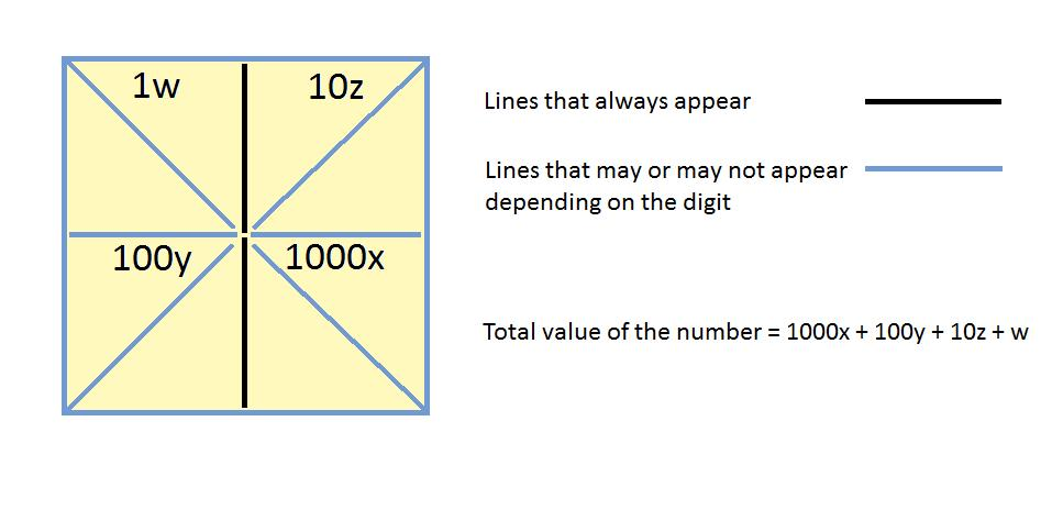 This figure explains the basic template of the symbols in the Notae Elegantissimae Number System.